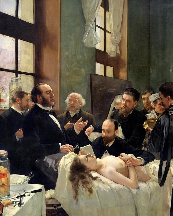 The operation